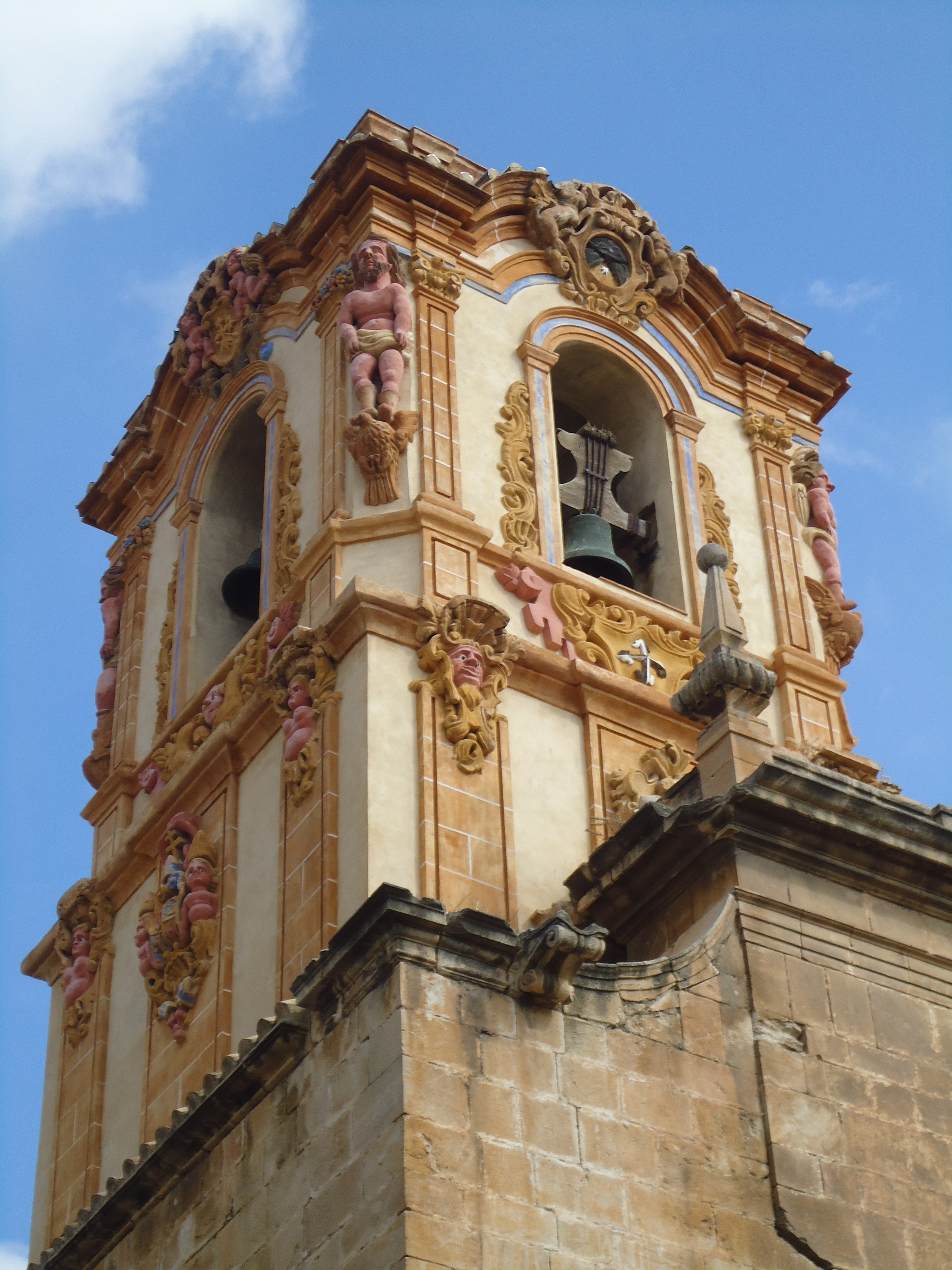 Torre del Colegio de Santo Domingo, Oriola